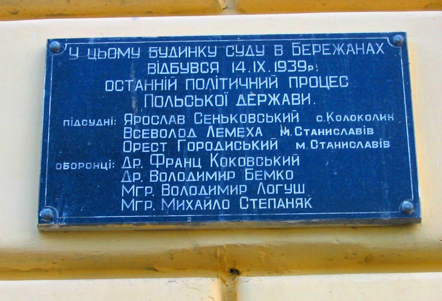 Memorial plaque on the walls of Berezhany Agrotechnical Institute, Berezhany, Ternopil Oblast western Ukraine.